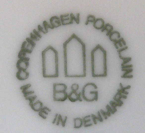 Bing & Grøndahl was a Danish porcelain manufacturer founded in 1853.